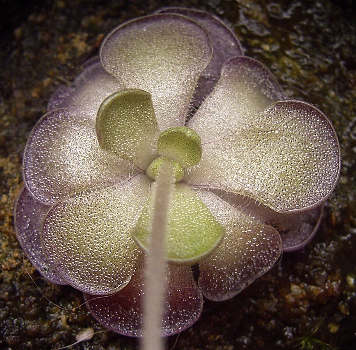 Pinguicula cyclosecta summer rosette.jpg Author: Denis Barthel